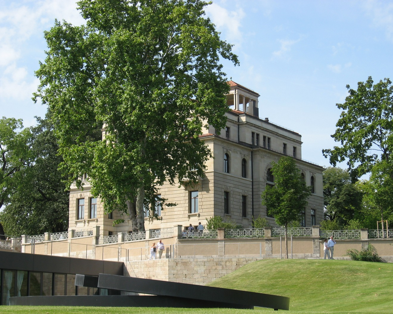 Robert Bosch's mansion at Heidehofstraße in Stuttgart, built 1910